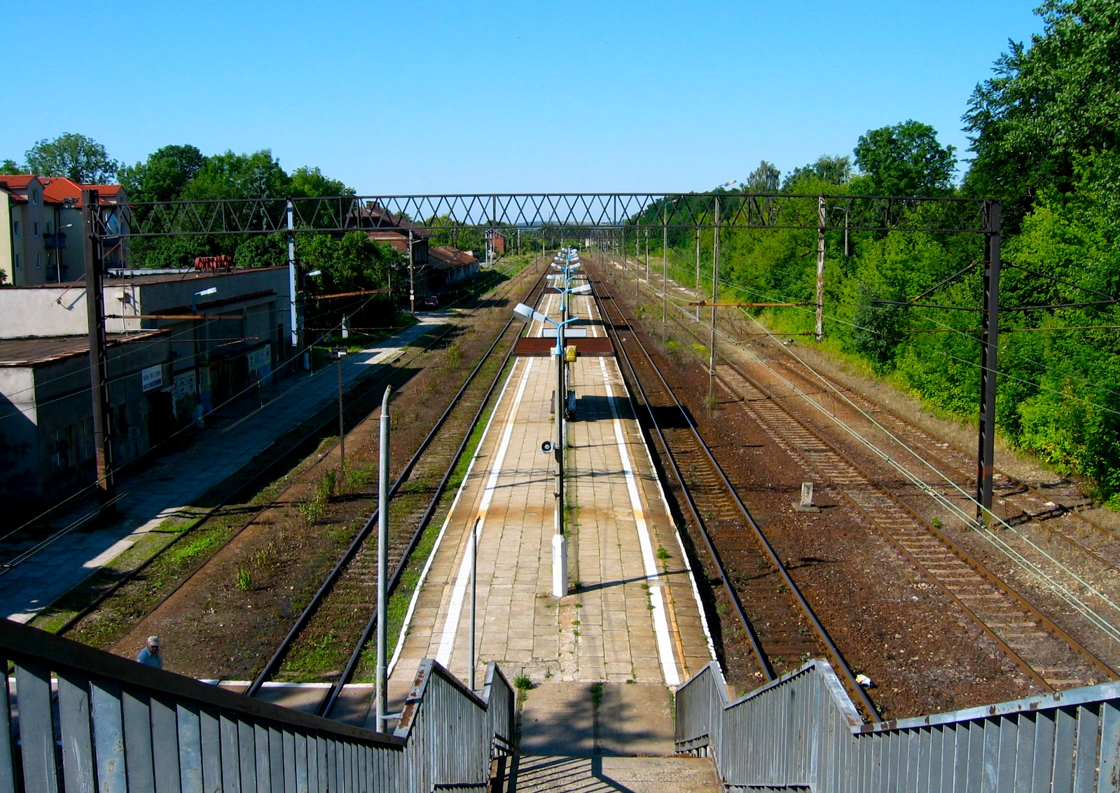 Chrzanów, the railway station